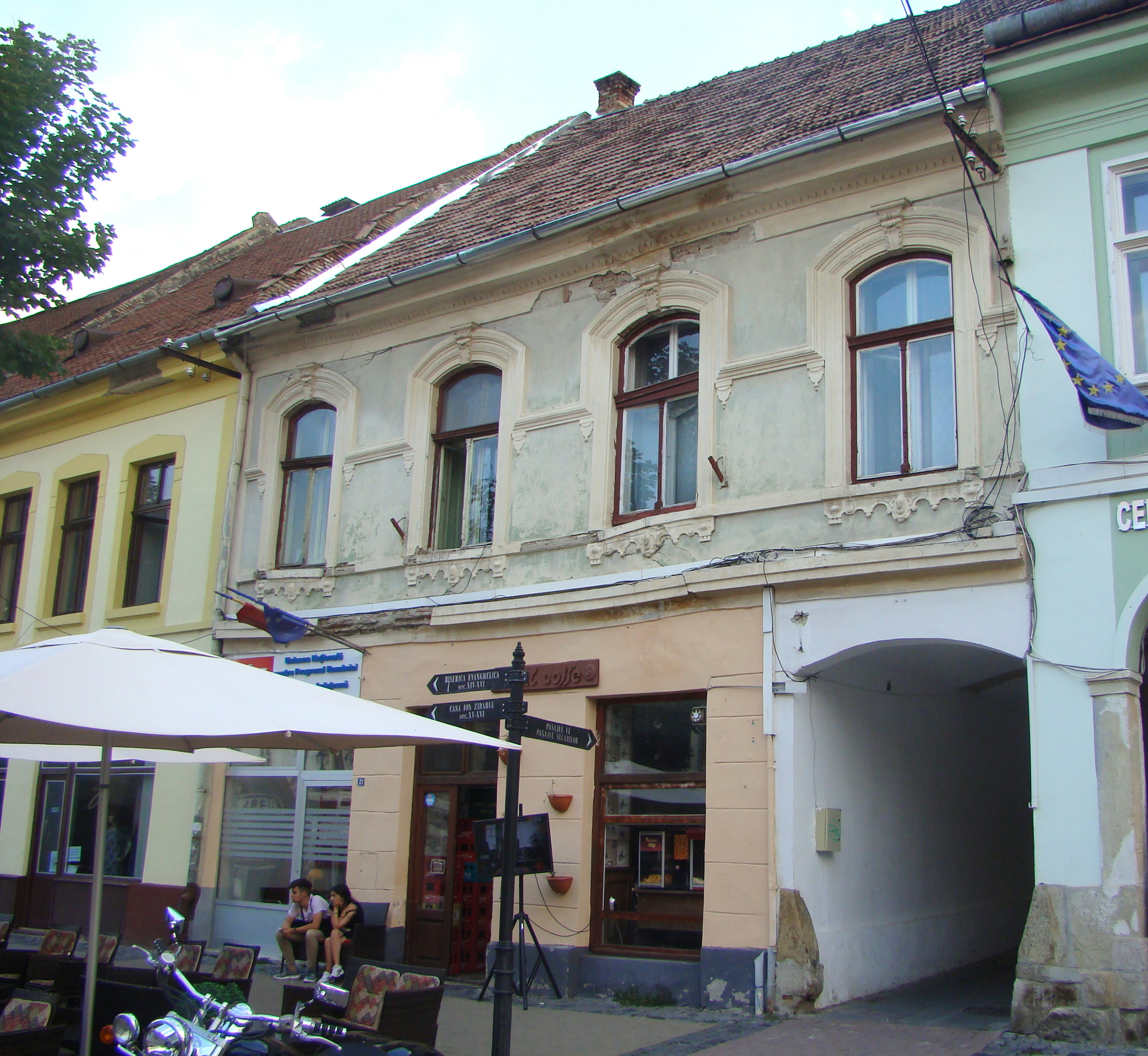 House, historic monument, in Bistrița, Liviu Rebreanu street 21